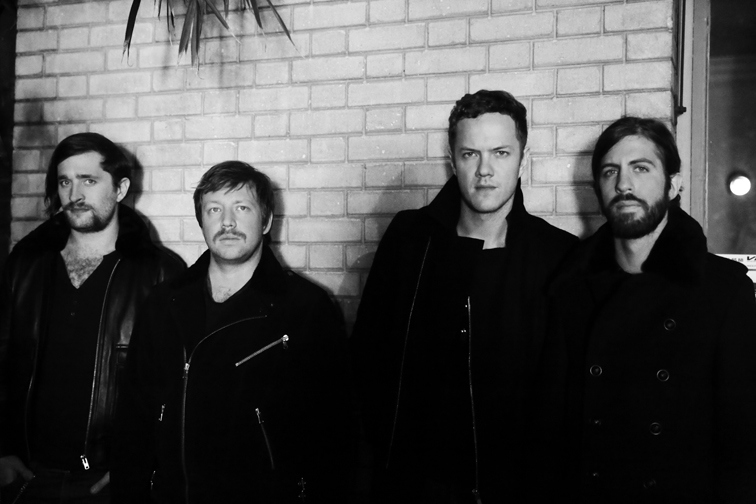 Imagine Dragons 2013